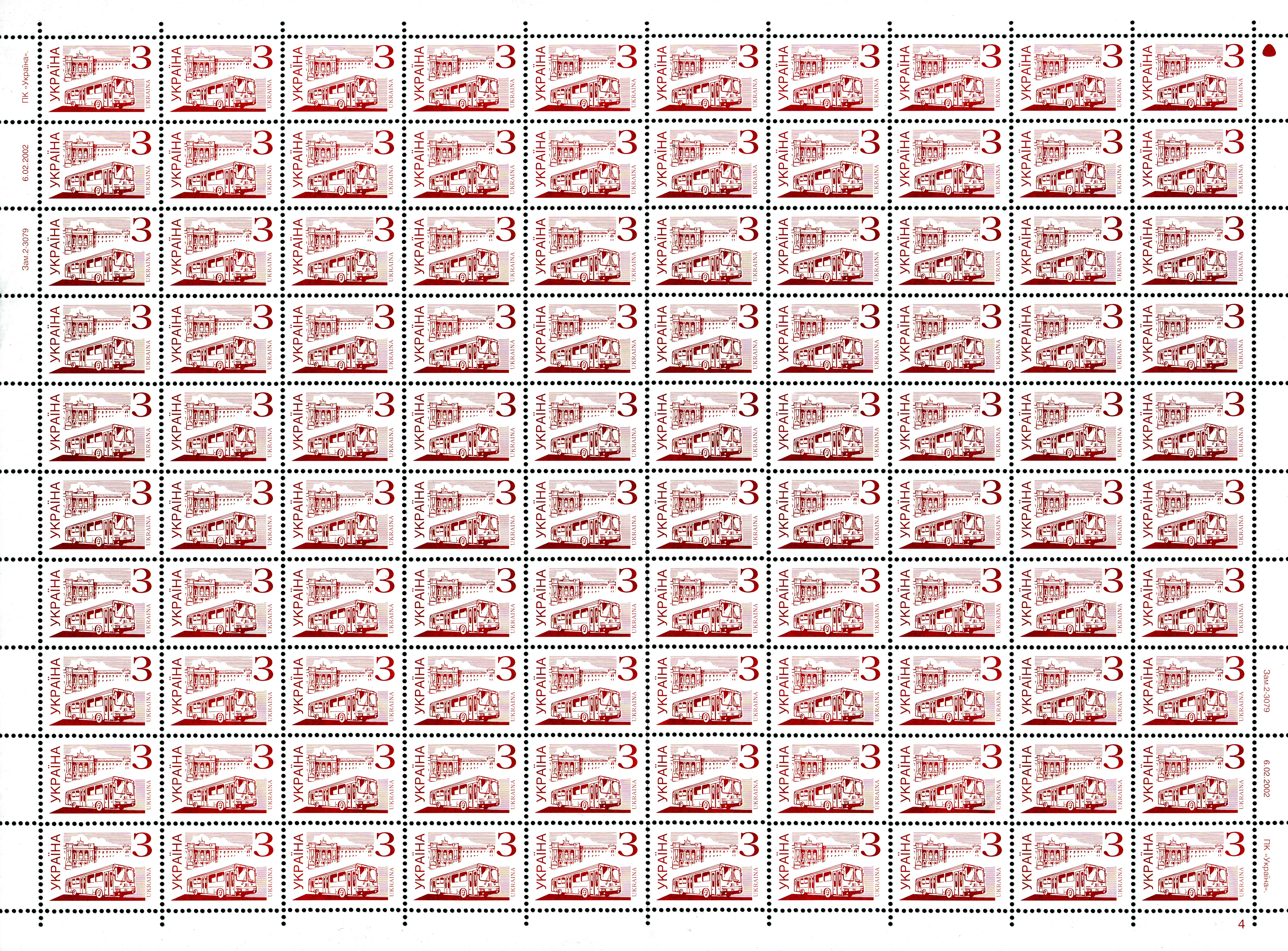 A sheet of 2002 Ukraine definitive stamps, with a "Z" non-denominated postage.